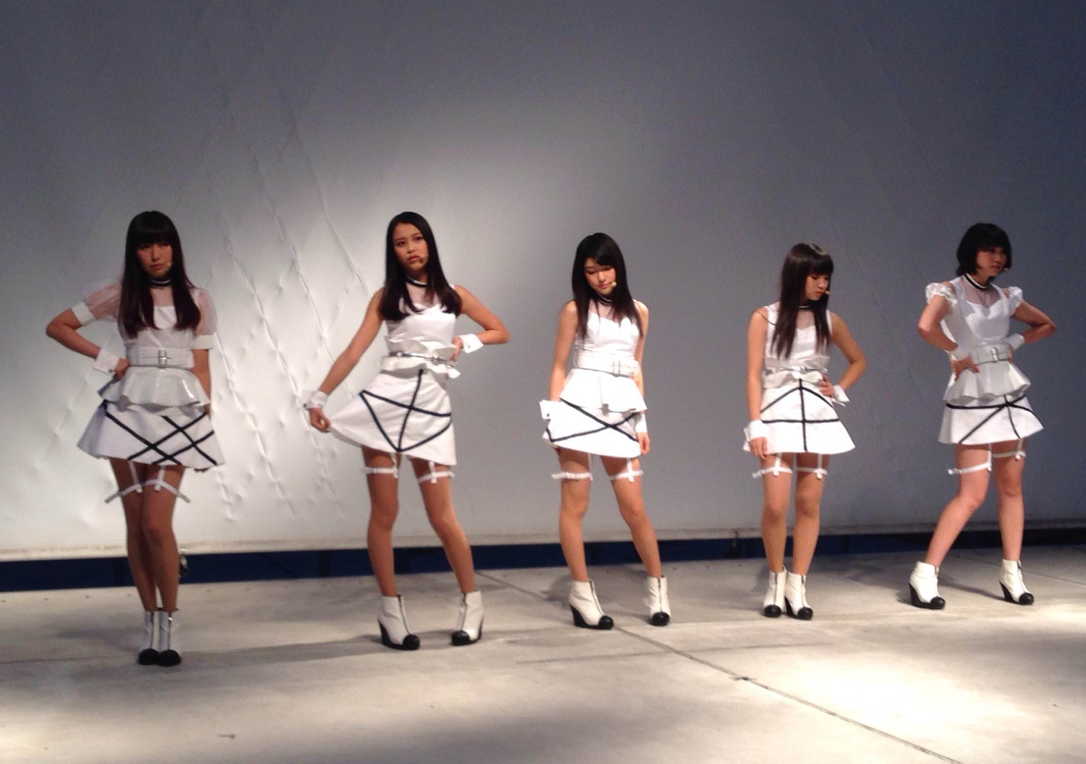 Japanese girl group 9nine at a promotional event